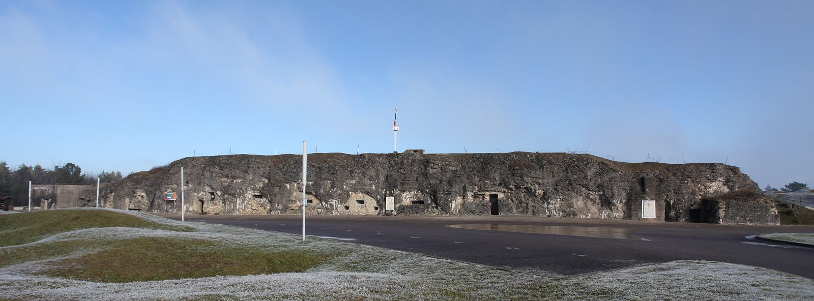 The Fort Vaux near Verdun in 2016